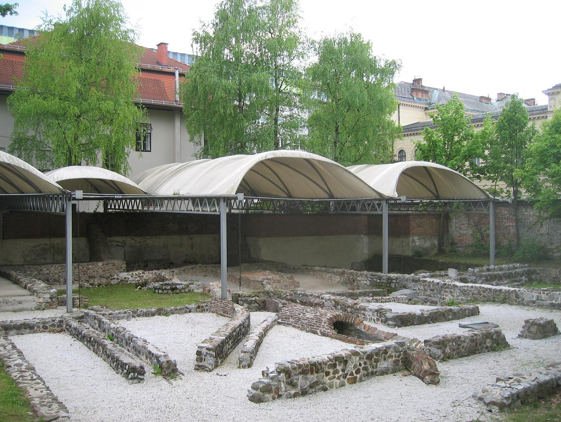 Early christian center, Ljubljana photo:Ziga 14:56, 10 May 2006 (UTC)